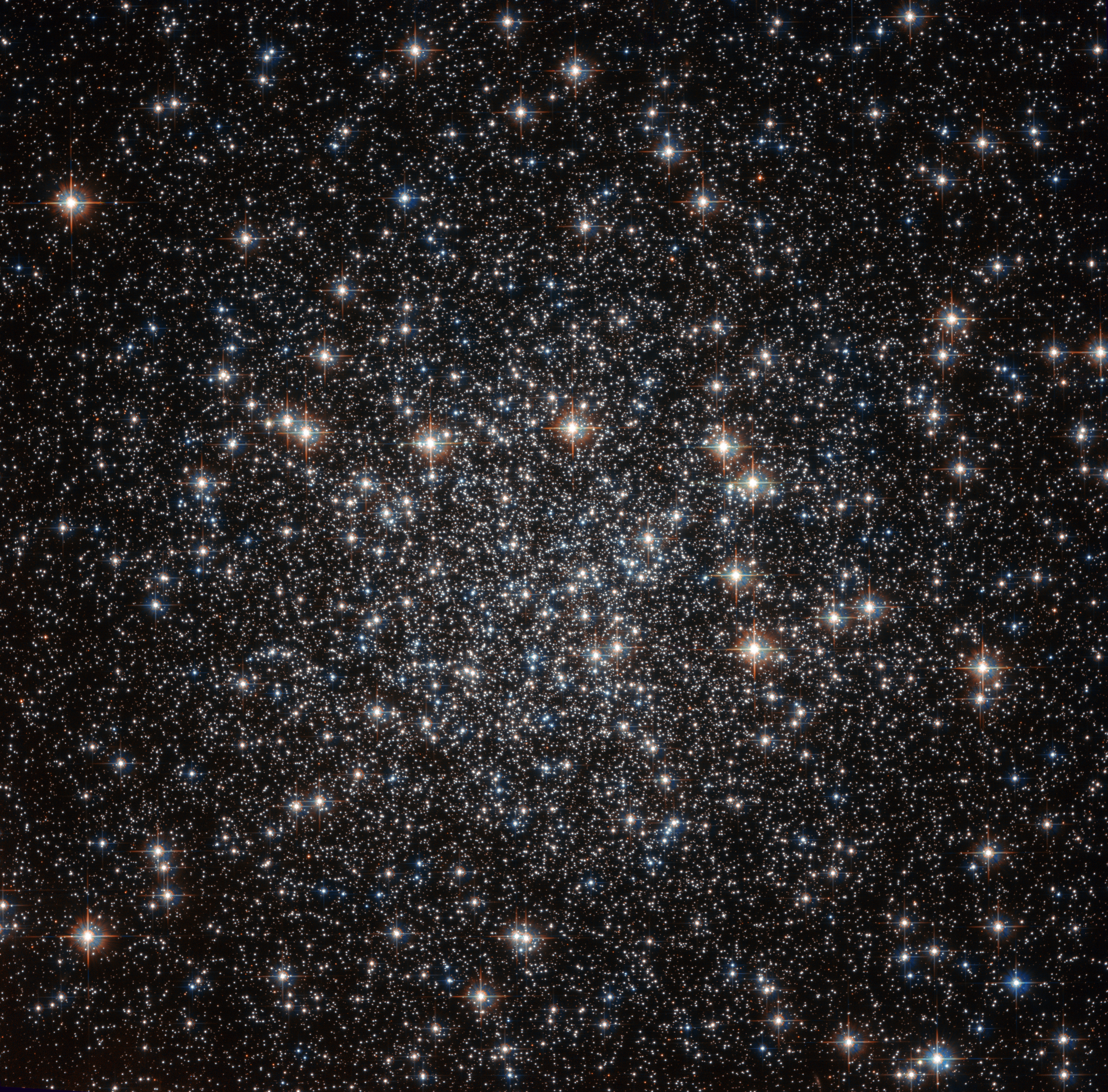 Located approximately 22 000 light-years away in the constellation of Musca (The Fly), this tightly packed collection of stars — known as a globular cluster — goes by the name of NGC 4833. This NASA/ESA Hubble Space Telescope image shows the dazzling stellar group in all its glory. NGC 4833 is one of the over 150 globular clusters known to reside within the Milky Way. These objects are thought to contain some of the oldest stars in our galaxy. Studying these ancient cosmic clusters can help astronomers to unravel how a galaxy formed and evolved, and give an idea of the galaxy’s age. Globular clusters are responsible for some of the most striking sights in the cosmos, with hundreds of thousands of stars congregating in the same region of space. Hubble has observed many of these clusters during its time in orbit around our planet, each as breathtaking as the last.